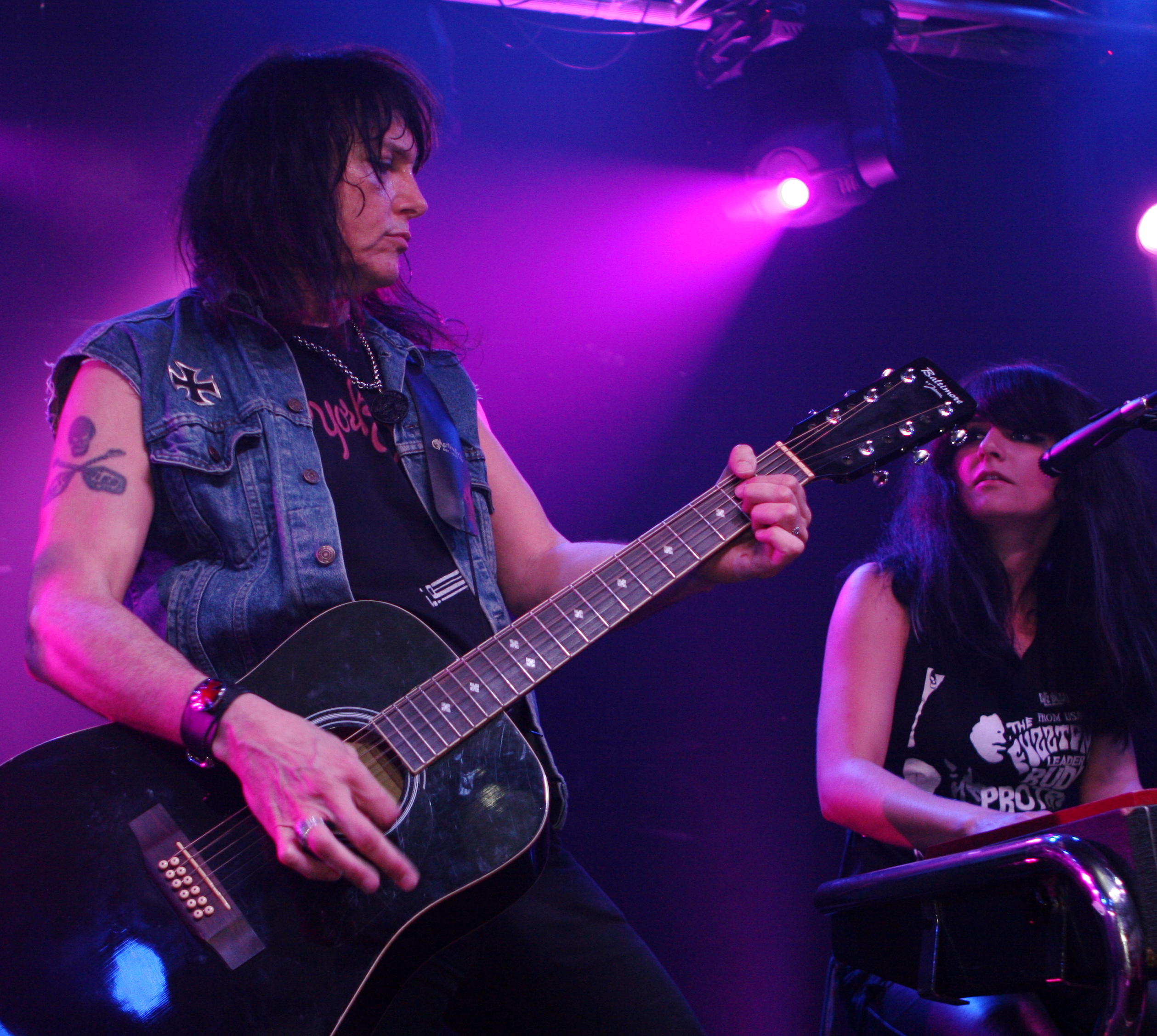 The Fuzztones in concert in Barcelona, JUne 2008.